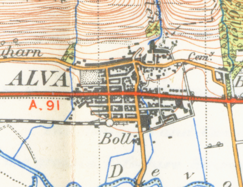 map of Alva 1 inch to the mile scale scanned at 600 DPI